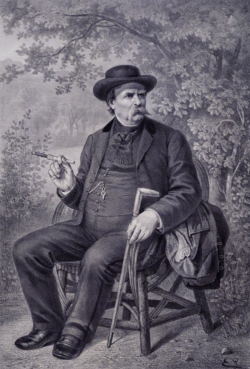 Deák Ferenc portré